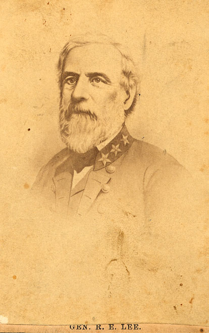 General Robert E. Lee c 1862, Photograph from an engraving